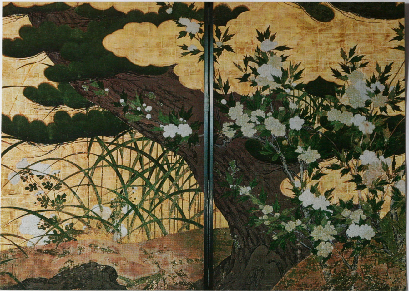 Pine tree and flowering plants, Hasegawa Tōhaku(1539-1610), ACE1593, Ink and color on paper with gold leaf background, 226.2 × 165.7 cm,Chishaku-in, Kyoto